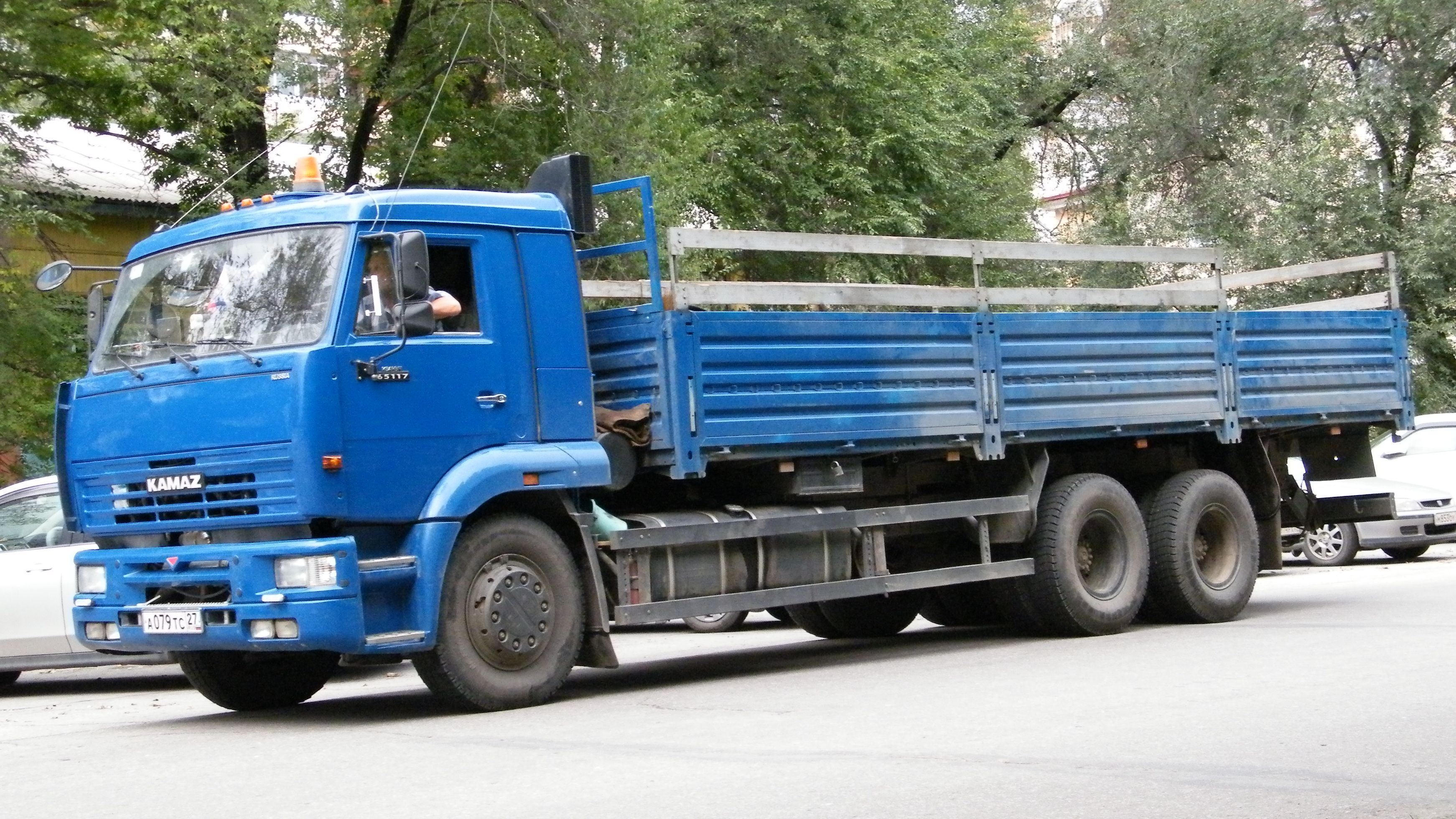 КАМАЗ-65117